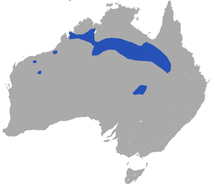 Long-tailed Planigale (Planigale ingrami) range